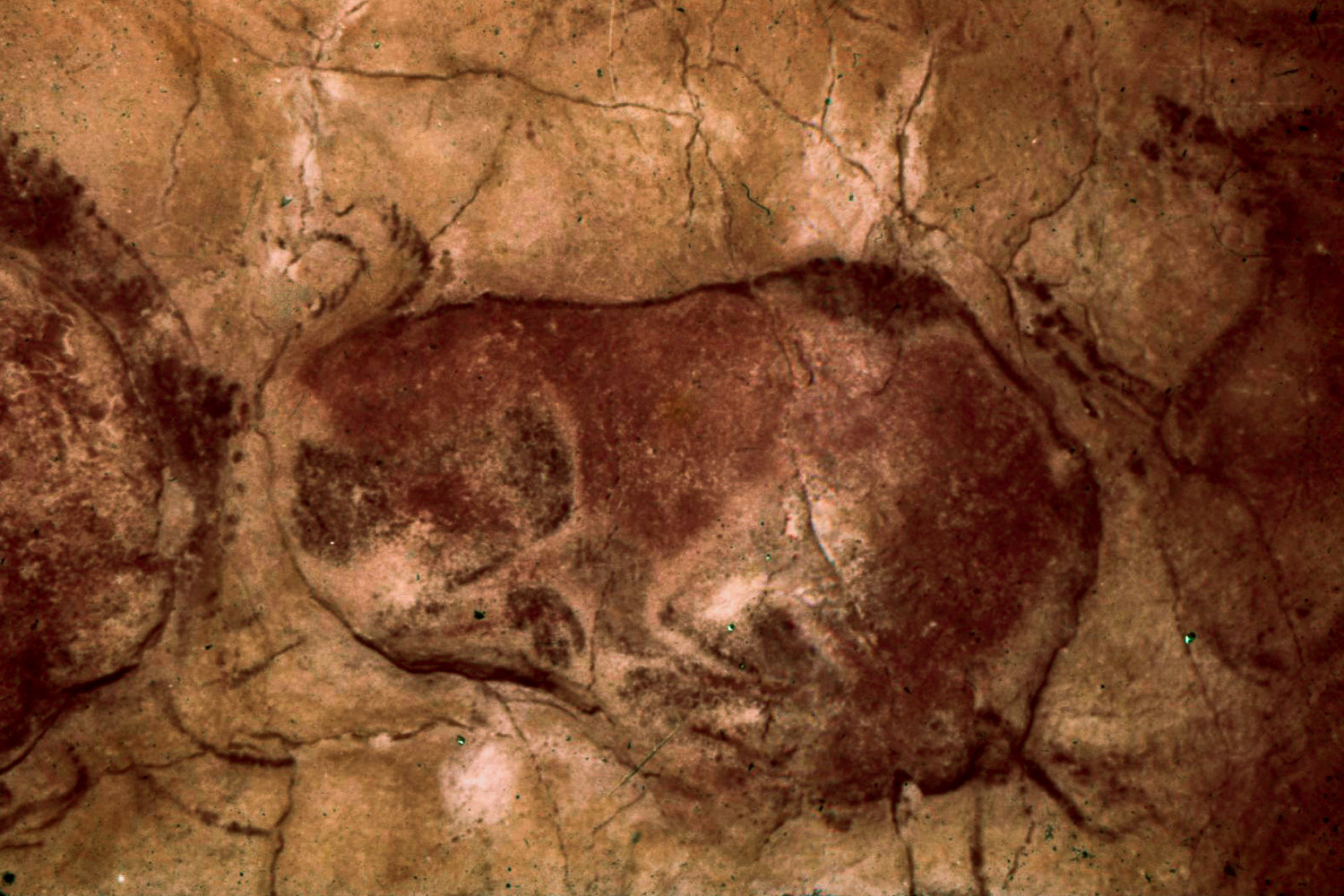 Bison in the cave of Altamira.